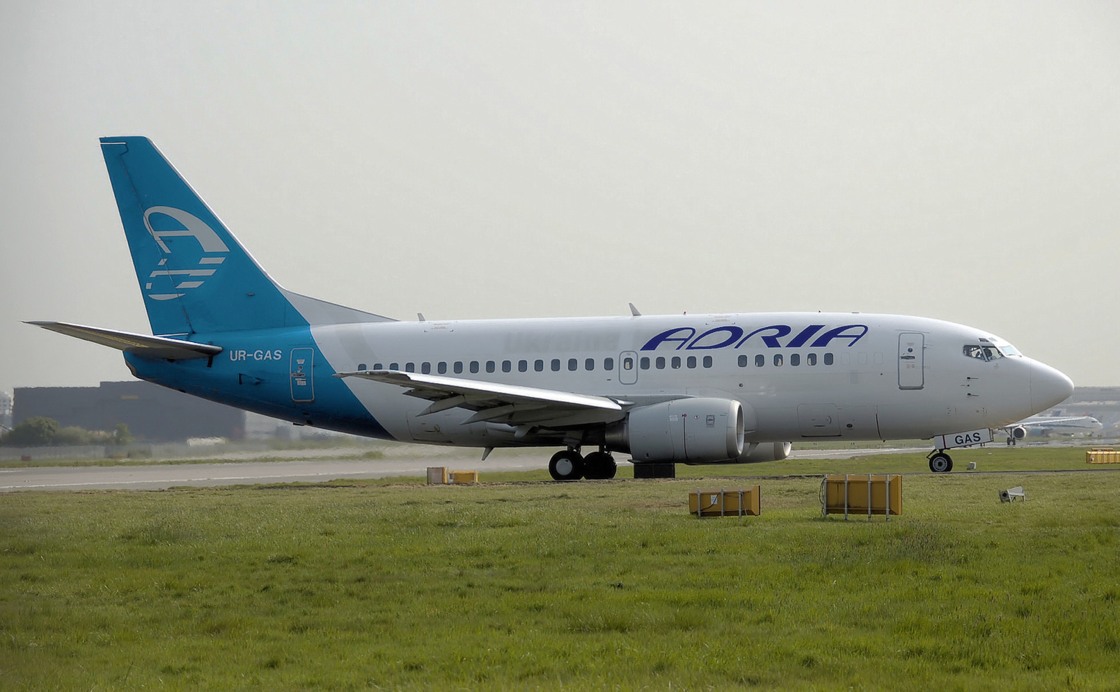 Adria Airways Boeing 737-500 (Ukraine registration UR-GAS) taxis for takeoff at London Gatwick Airport, England. The faint word on the fuselage is UKRAINE.